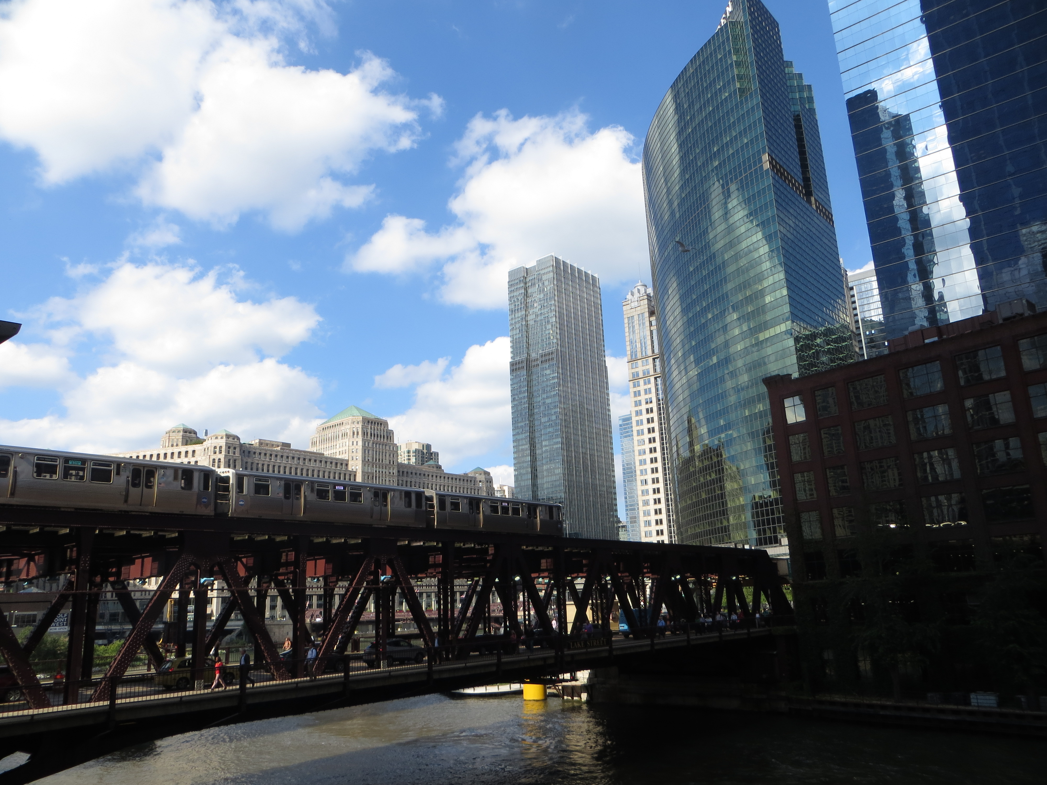 20170713 04 CTA Green Line L crossing Chicago River